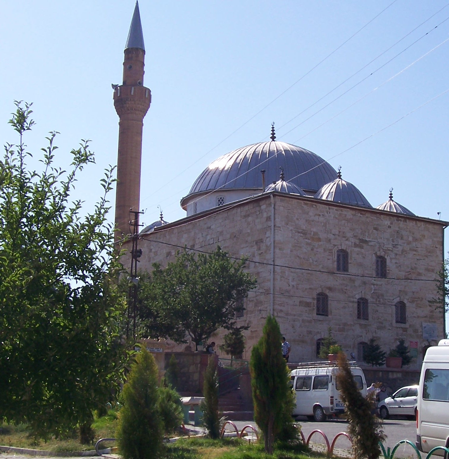 Vahap Gazi Mosque in Sivas, Turkey